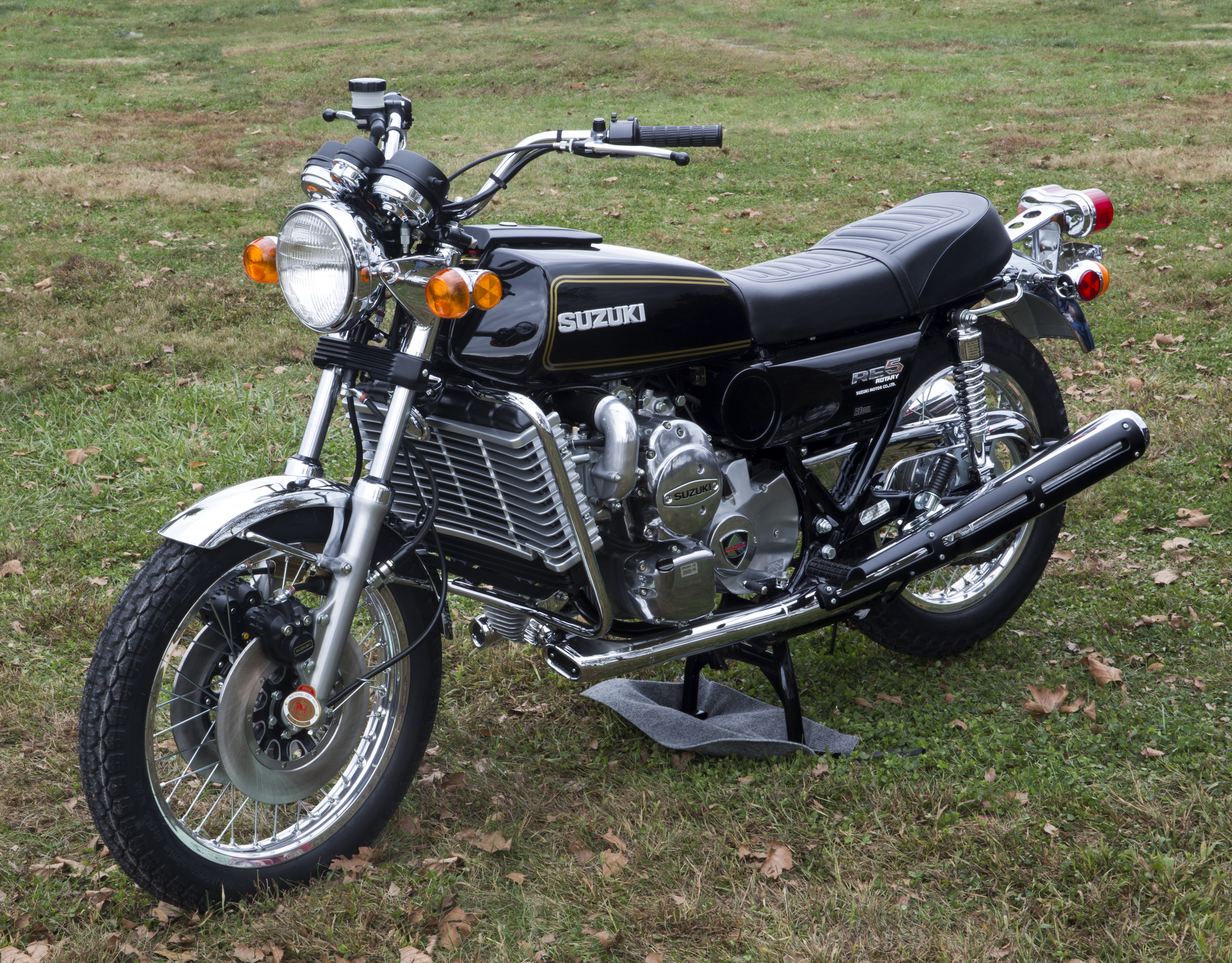 A concourse condition 1976 Suzuki RE-5 (type A) in the show area at Hershey 2019. For the last model year, the RE-5 received conventional instrumentation and some other details from the GT750.